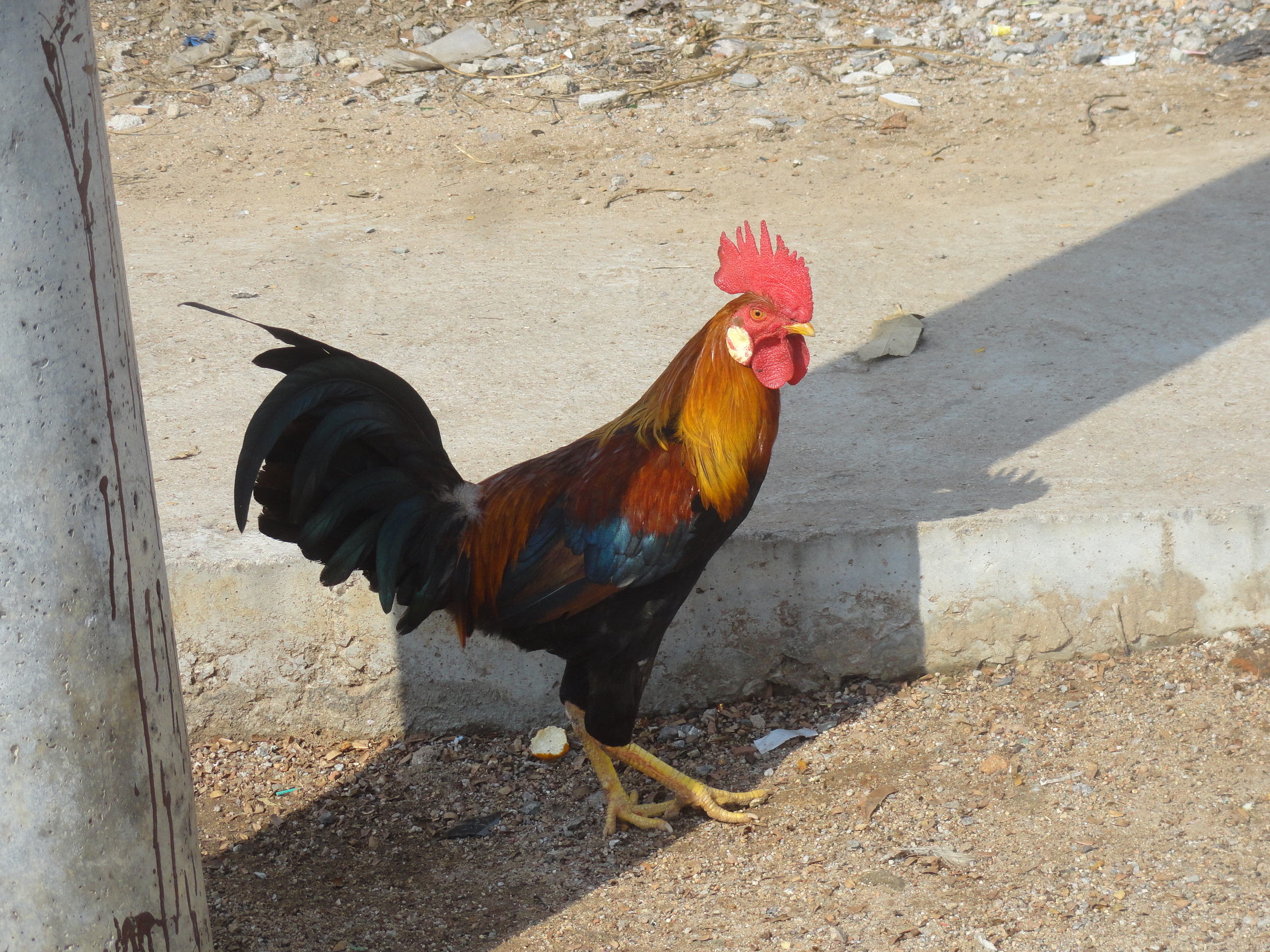 నాటుకోడి పుంజు